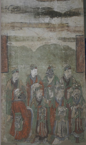 Fresco, Jincheng Museum